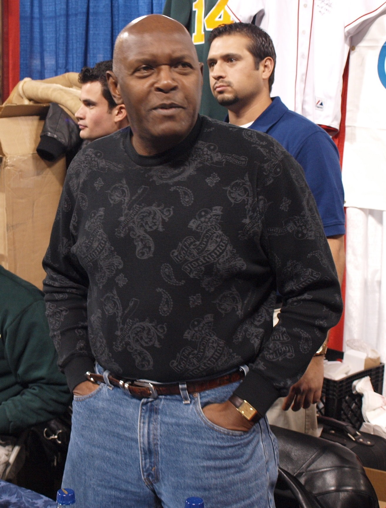 Vida Blue at Twins Fest 2010